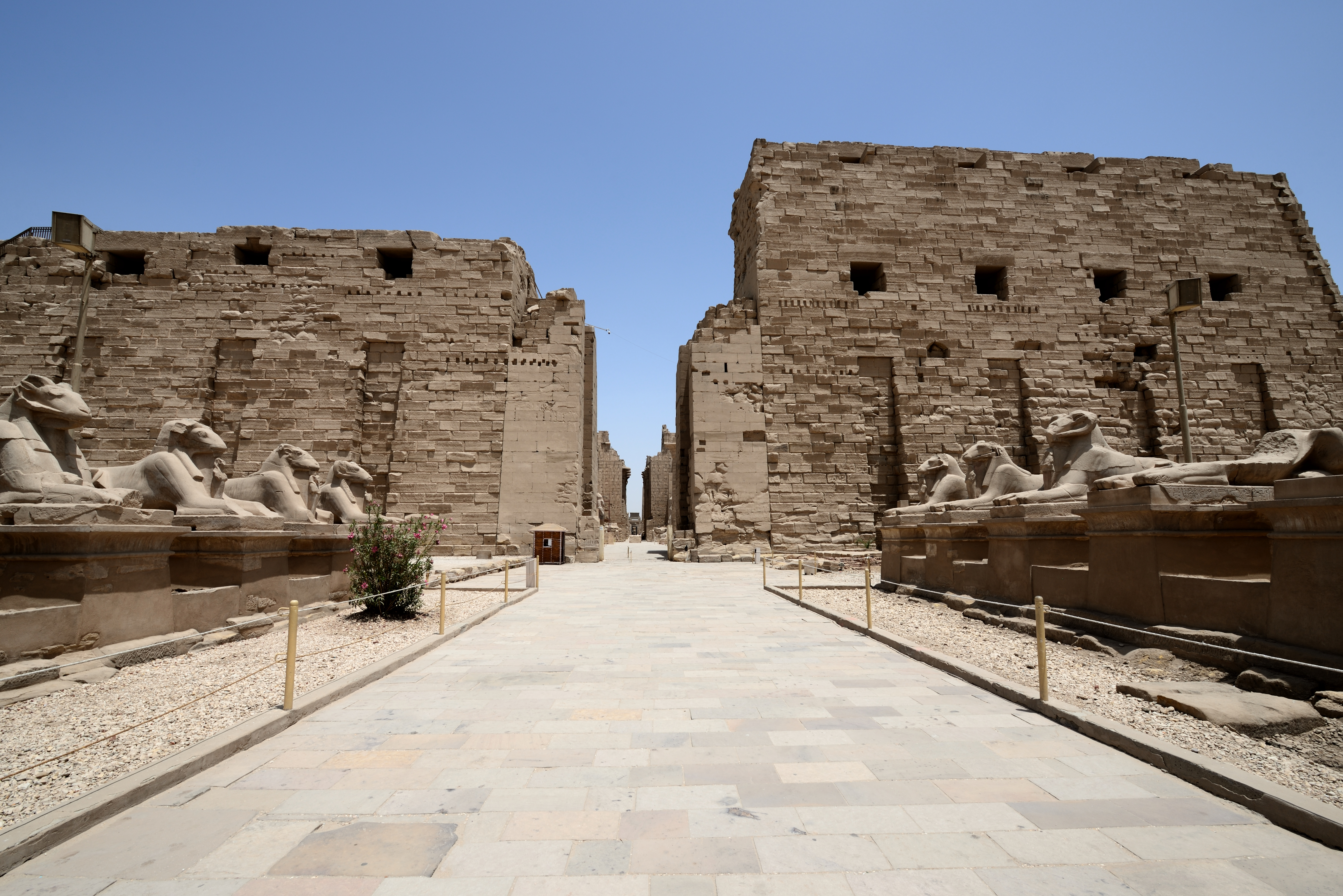 Karnak temple complex